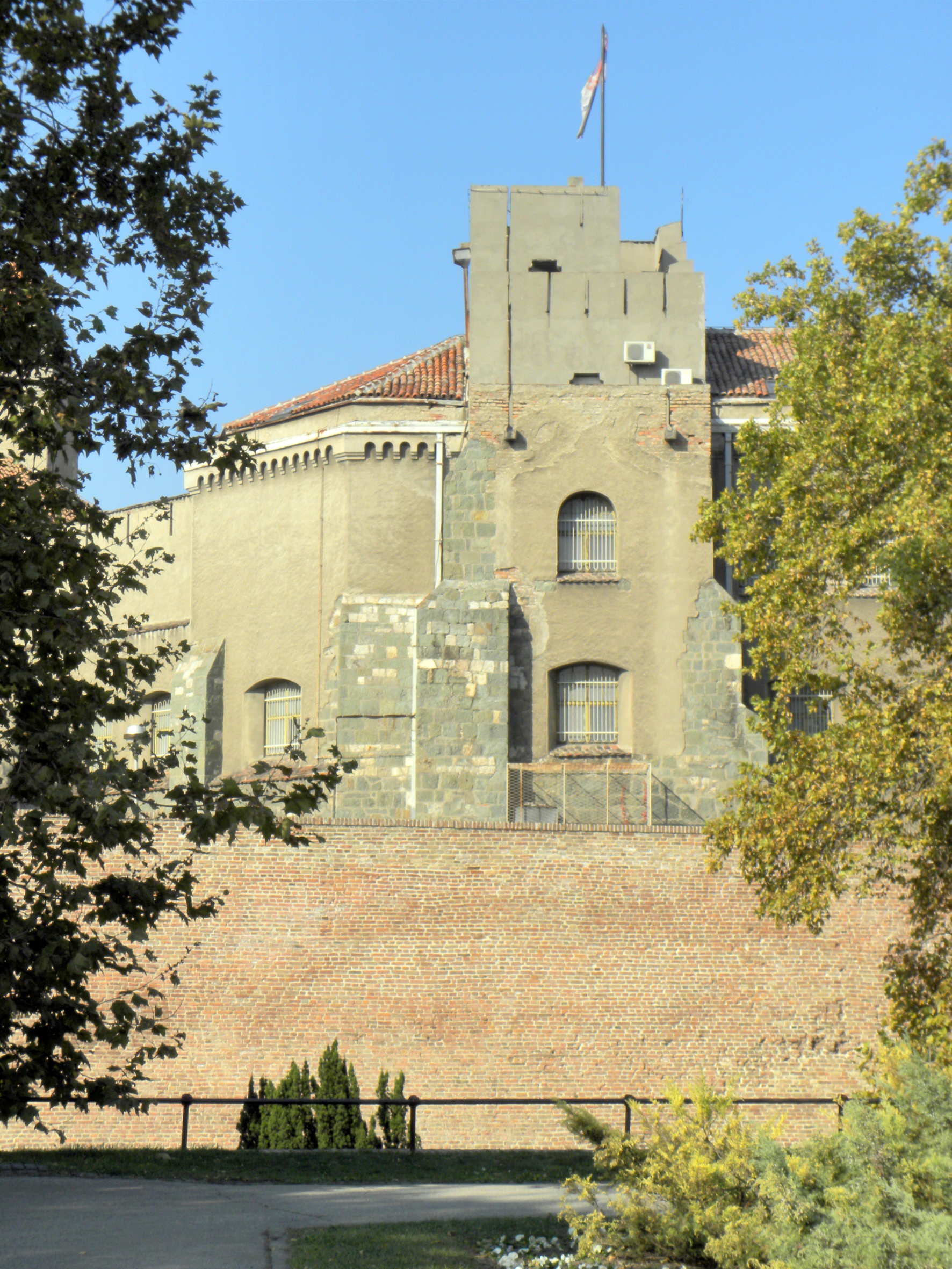 Belgrade Fortress consists of the old citadel (Upper and Lower Town) and Kalemegdan Park (Large and Little Kalemegdan) on the confluence of the River Sava and Danube, in an urban area of modern Belgrade, the capital of Serbia. It is located in Belgrade's municipality of Stari Grad. Belgrade Fortress was declared a Monument of Culture of Exceptional Importance in 1979, and is protected by the Republic of Serbia. It is the most visited tourist attraction in Belgrade, with Skadarlija being the second. Since the admission is free, it is estimated that the total number of visitors (foreign, domestic, citizens of Belgrade) is over 2 million yearly.